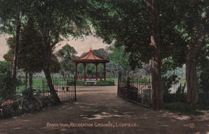 The Band Stand that once stood in the recreation grounds of Beacon Park.